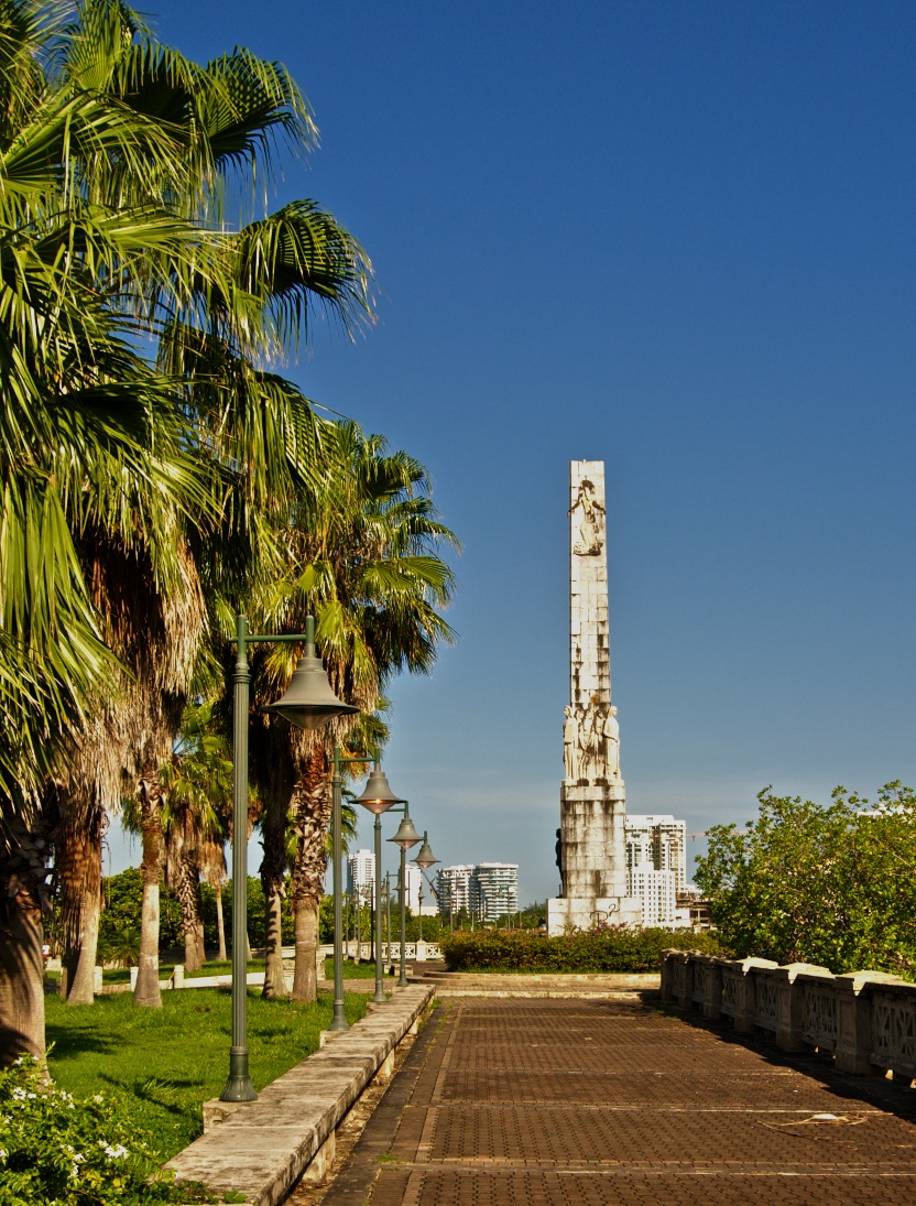 Modern Obelisk sculpture at park in San Juan, Puerto Rico.